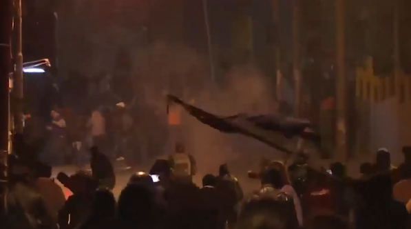 Violent protests in Bolivia in October 2019